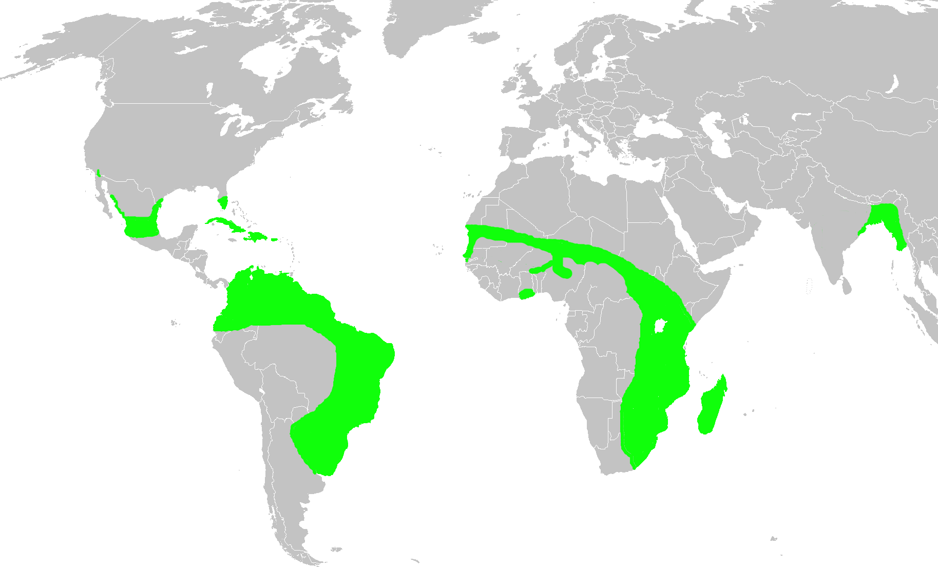 Range map for Dendrocygna bicolor based on Hoyo, Josep del; Elliott, Andrew; Sargatal, Jordi; Christie, David A (eds.). Fulvous Whistling-duck. Handbook of the Birds of the World Alive. Lynx Edicions. Retrieved on 17 March 2014. (subscription required) Kear, Janet (2005) Ducks, Geese and Swans, 1, Oxford: Oxford University Press ISBN: 978-0198546450. Madge, Steve; Burn, Hilary (1988) Wildfowl: An Identification Guide to the Ducks, Geese and Swans of the World (Helm Identification Guides), London: Christopher Helm ISBN: 0-7470-2201-1. Rasmussen, Pamela C; Anderton, John C (2005) Birds of South Asia. The Ripley Guide ISBN 84-87334-67-9) plate 16 Borrow, Nick; Demey, R (2004) Birds of Western Africa, London: Helm, p. 67 ISBN: 978-0-7136-6692-2. Base map is BlankMap-World-large.png